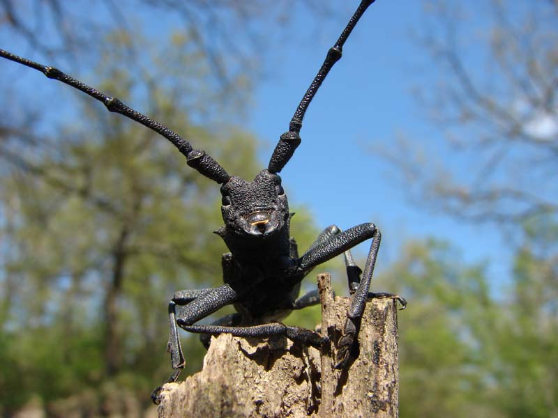 Front view of Morimus asper